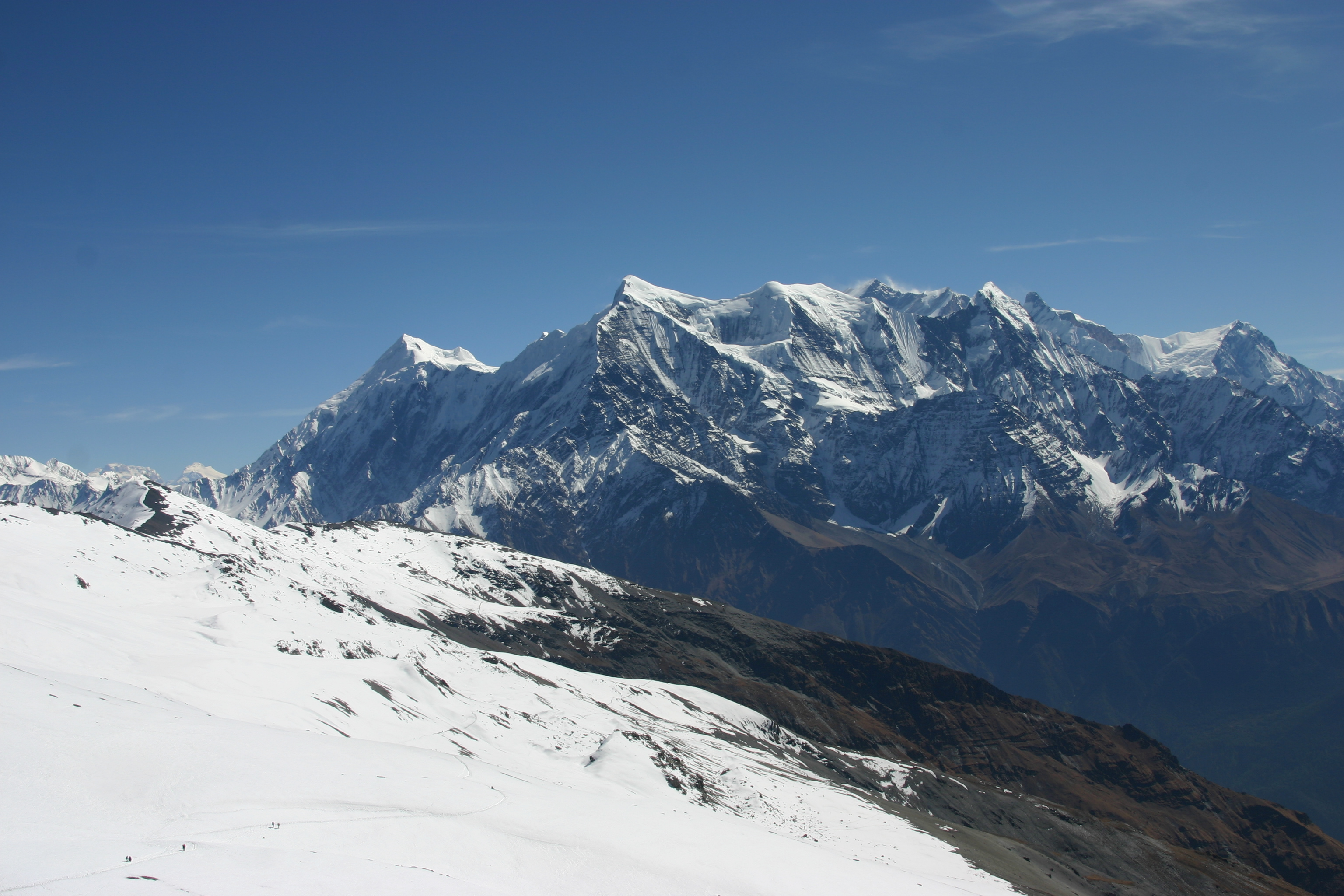 On the way to French Col (North of Dhaulagiri). View to the south west towards Tilicho Peak (7134 m) on the left and Nilgiri North (7061 m), Nilgiri Central (6940 m) and Nilgiri South (6839 m). Annapurna I (8091 m), Fang and Annapurna South in the distance